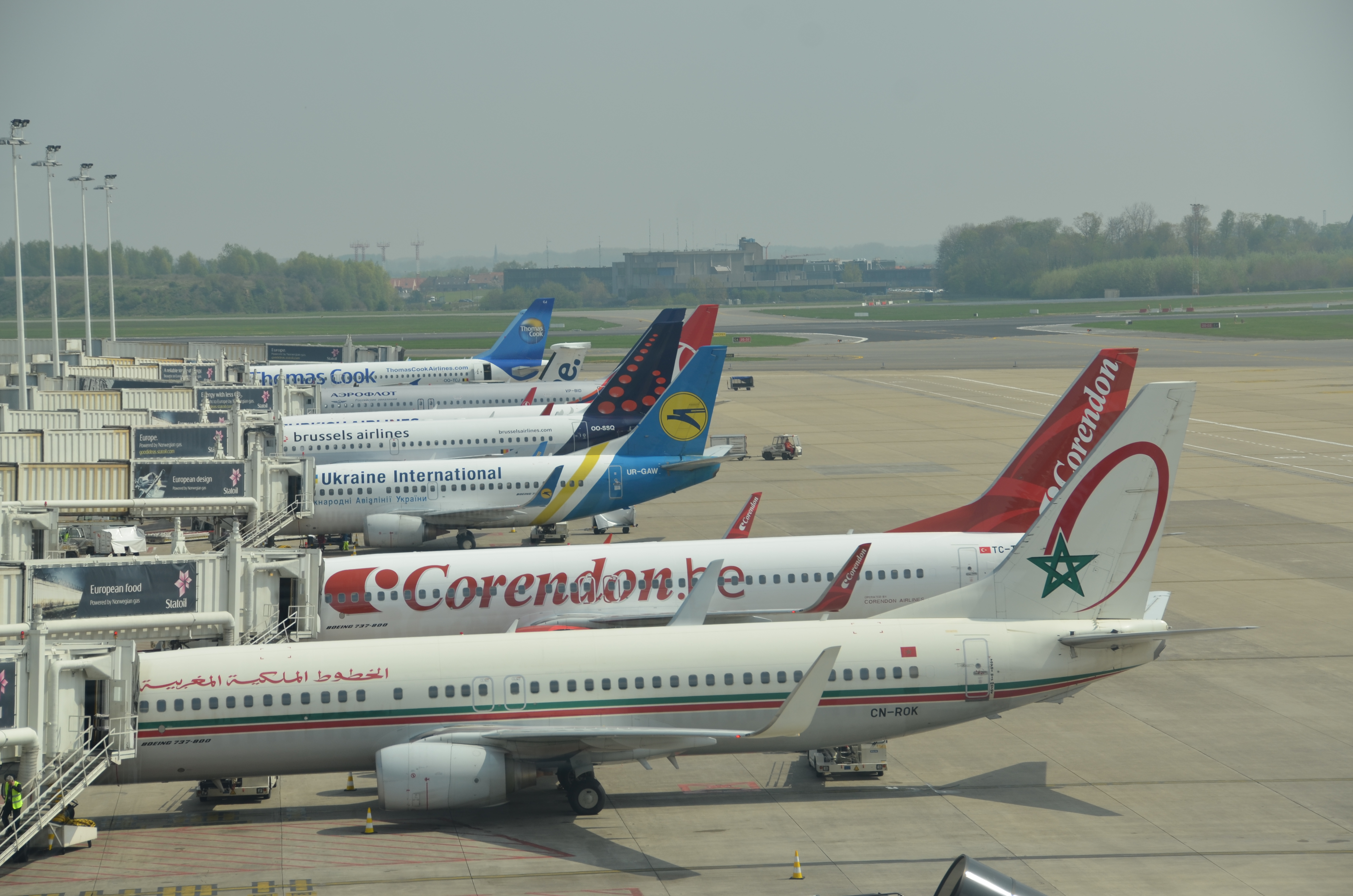 Some sunny pictures of our first Twicnic at Brussels Airport! Thanks to Exki for the healthy lunch.